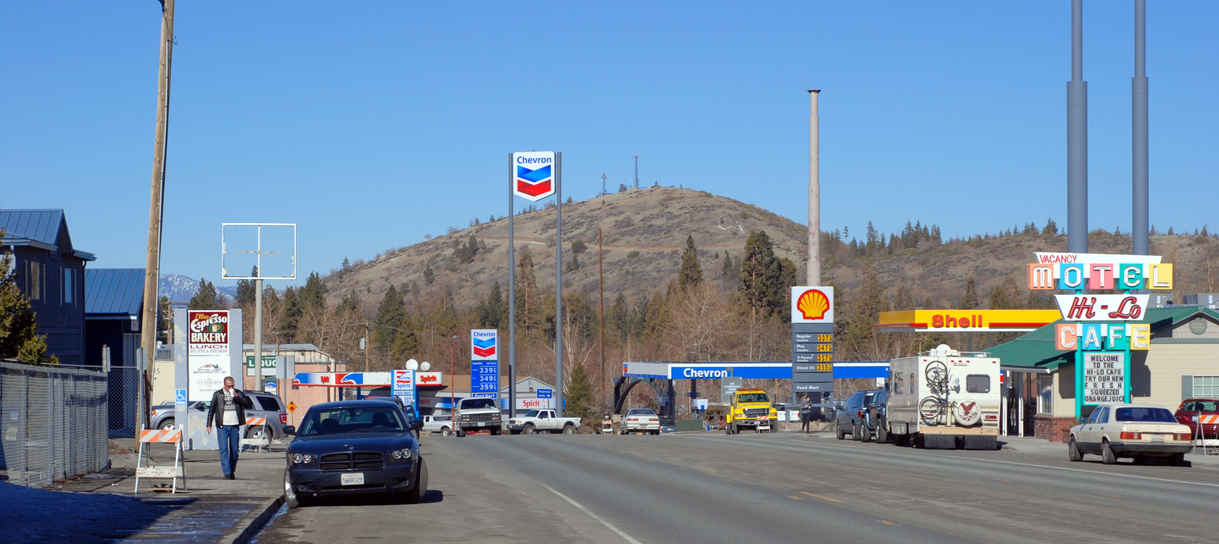 A street in Weed, California, USA